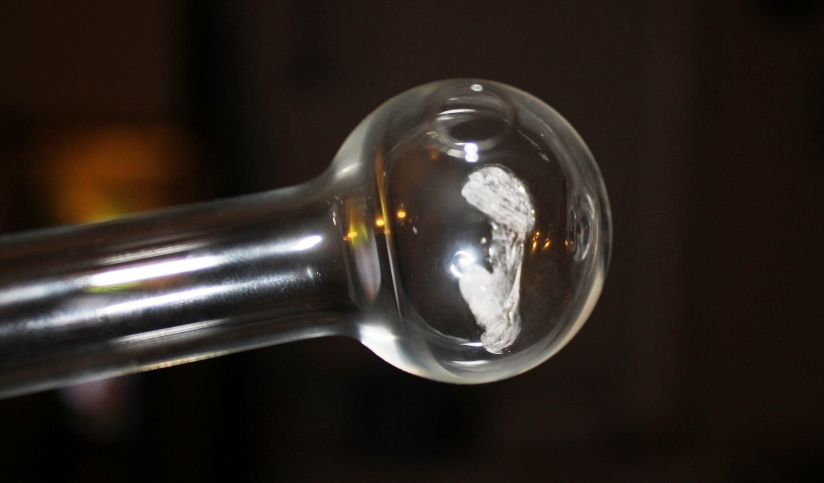 A glass pipe used for smoking methamphetamine with shards inside.